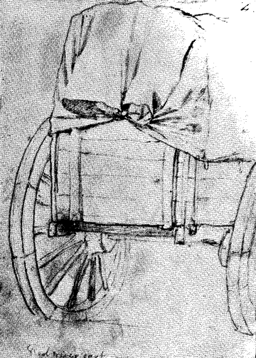 Red River ox cart sketched at Traverse des Sioux, Minnesota Territory